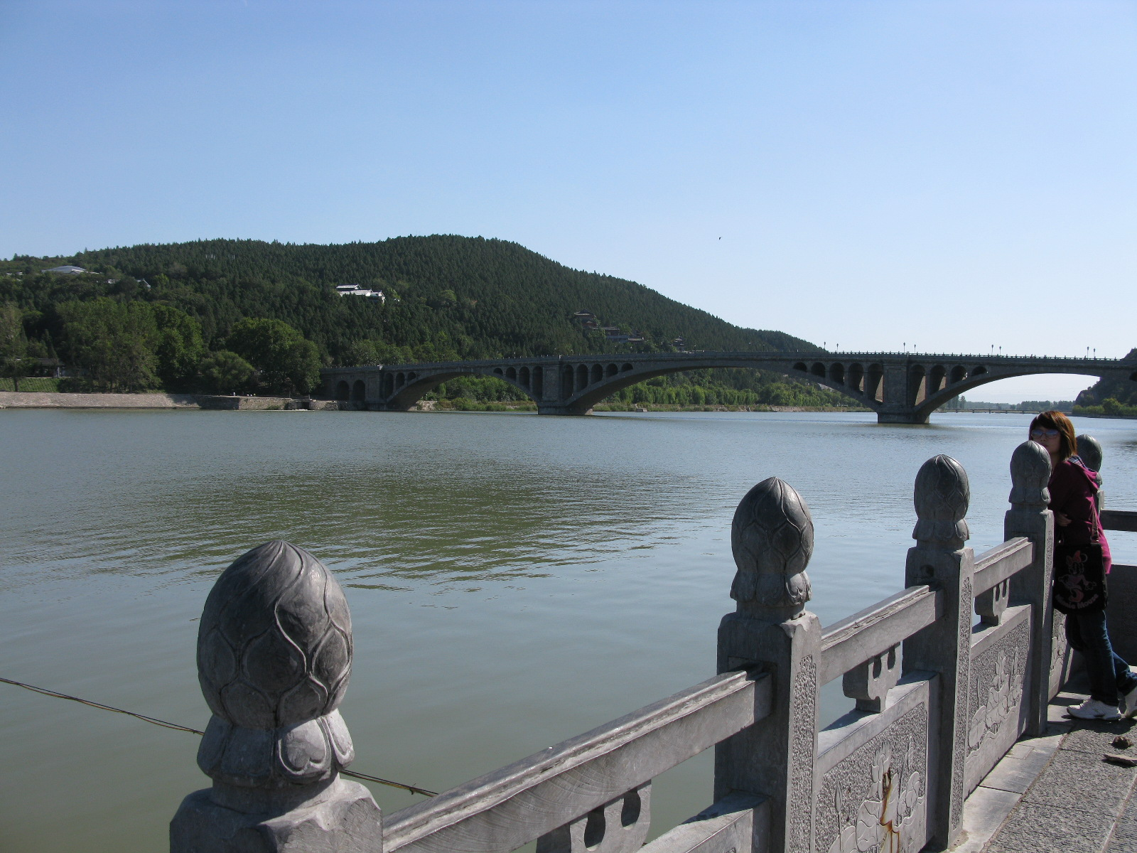 The Longmen Bridge near Luoyang